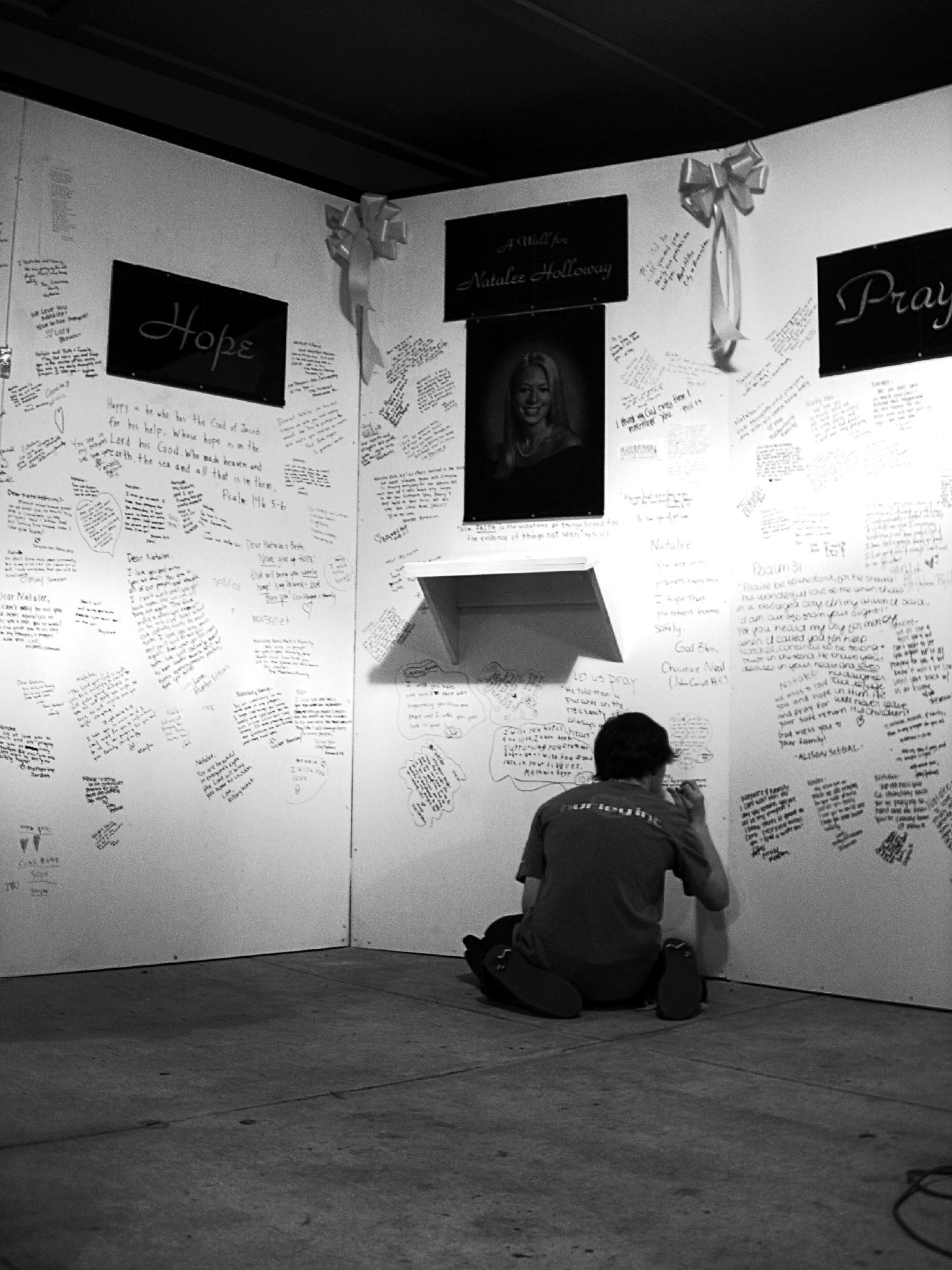 Young male signing a memorial wall for Natalee Holloway.